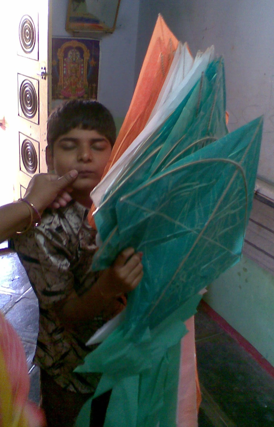 Kites with Indian Flag colours